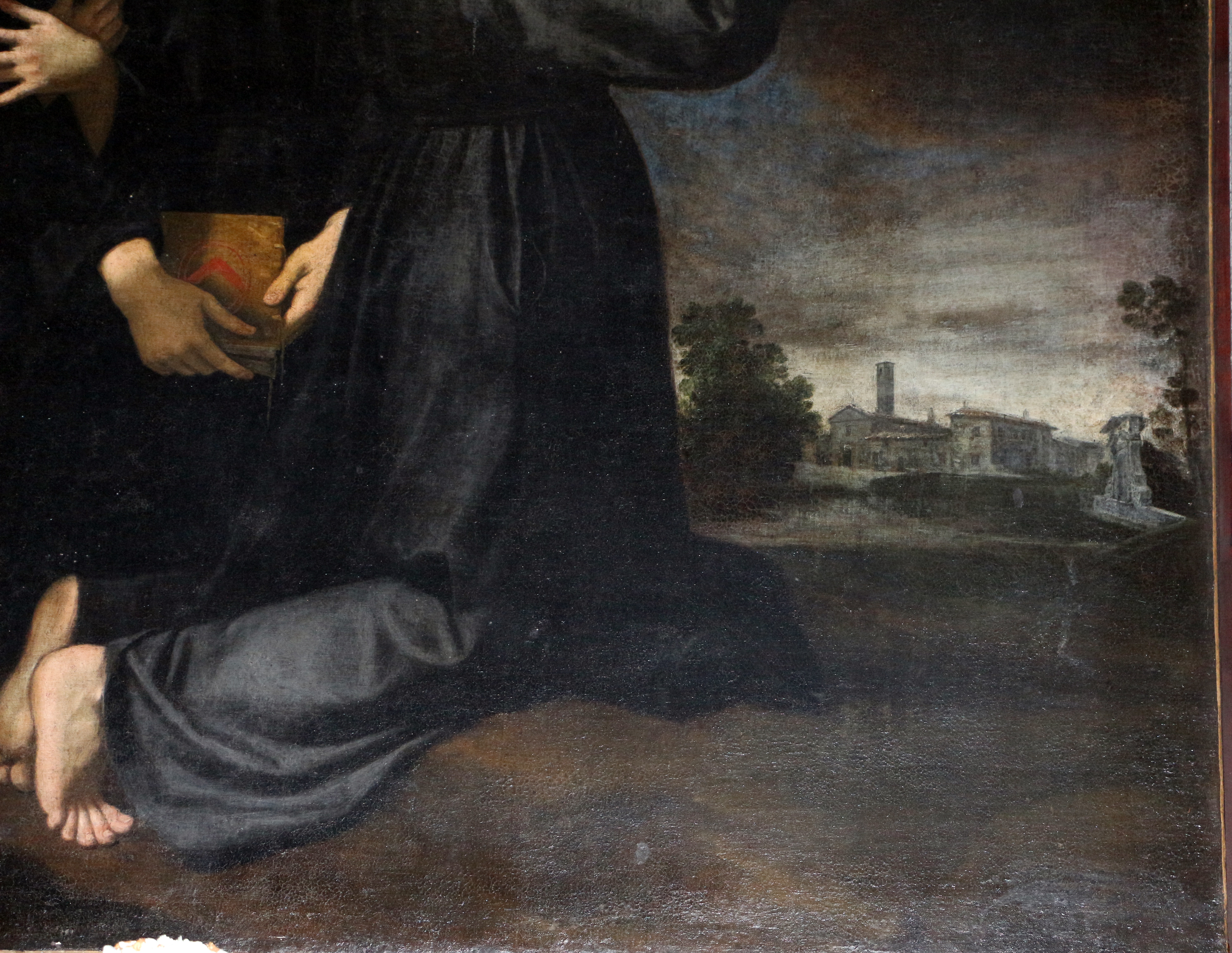 Santa Maria ad Antella